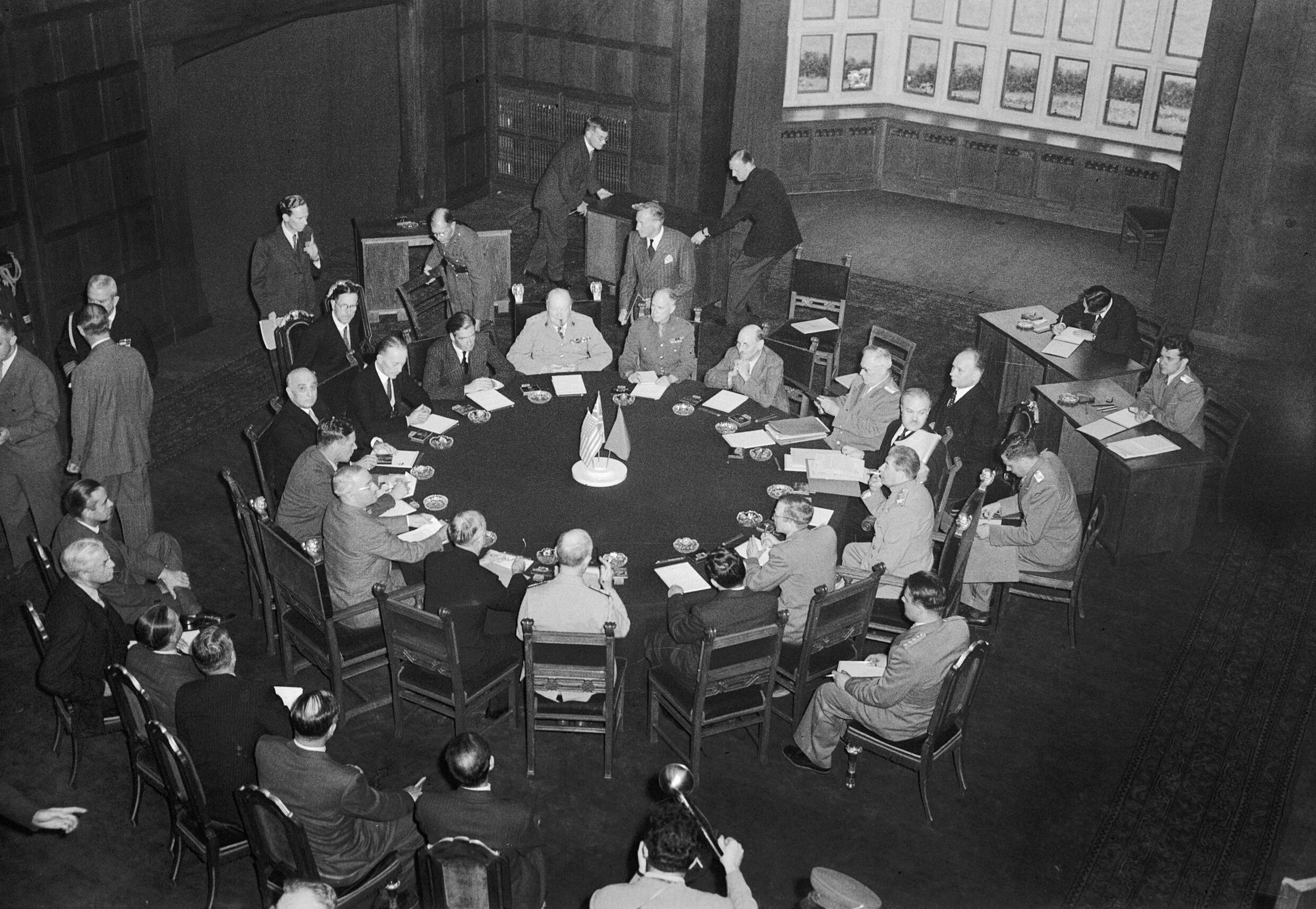 Joseph Stalin, Winston Churchill and President Truman with their staffs around the conference table at the Potsdam Conference, 17 July 1945. Josef Stalin, Prime Minister Winston Churchill and President Truman with their staffs around the conference table at Potsdam.